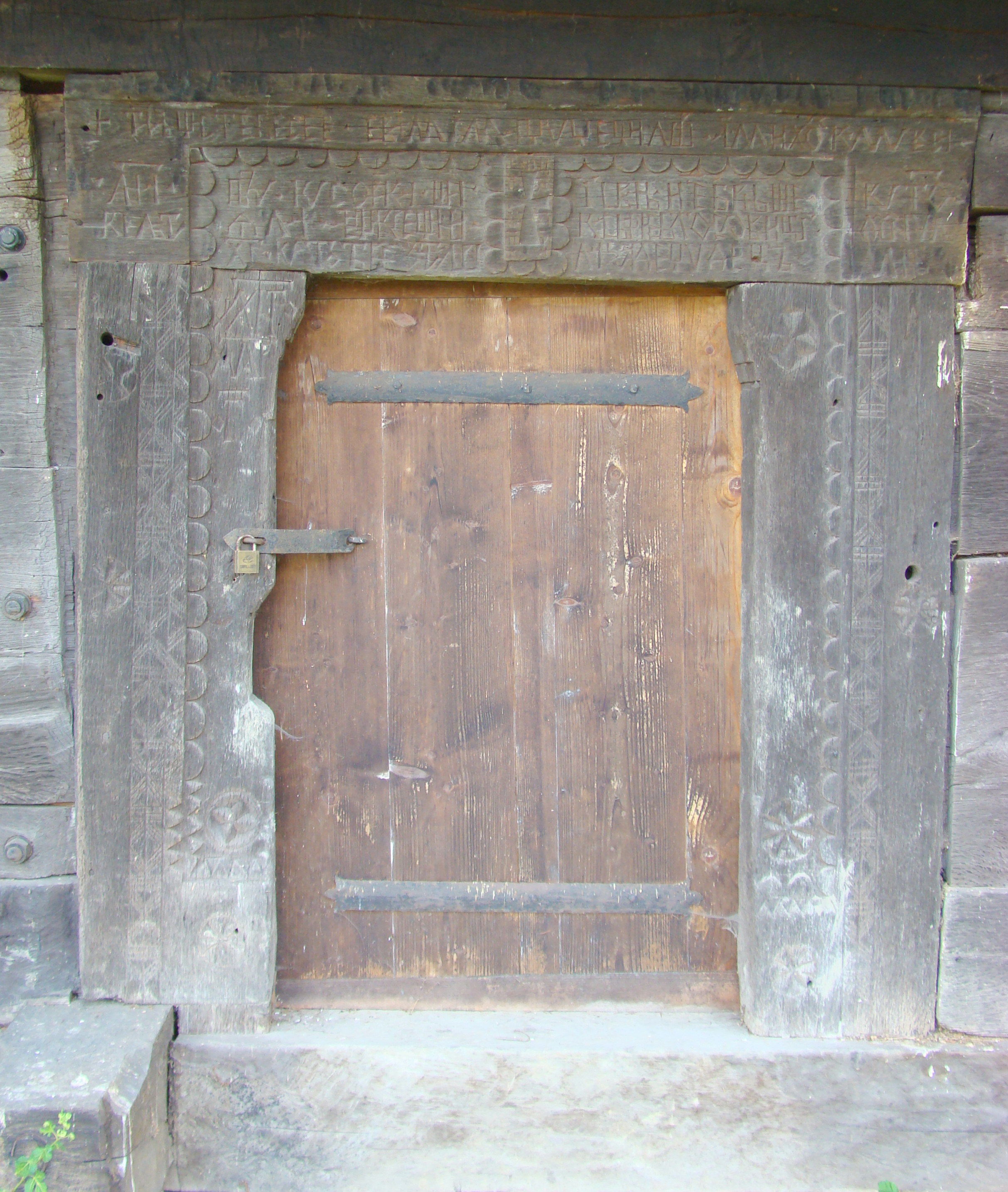 Wooden church in Bretea Mureșană, Hunedoara county, Romania